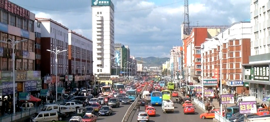 Looking northeast along Xingguo Middle Road (兴国中路) from its intersection with Central Street (中小大街) at 11:20 local time in Jixi, China. About 500 metres from this point on the left, just beyond the green topped China Post building, is the train station. The bus station is a further 500 meters along, on the right just before the overpass apparent in the distance. Neither station is visible here as they are inset from the road. Screen capture from a Sanyo Xacti CS-1 video.